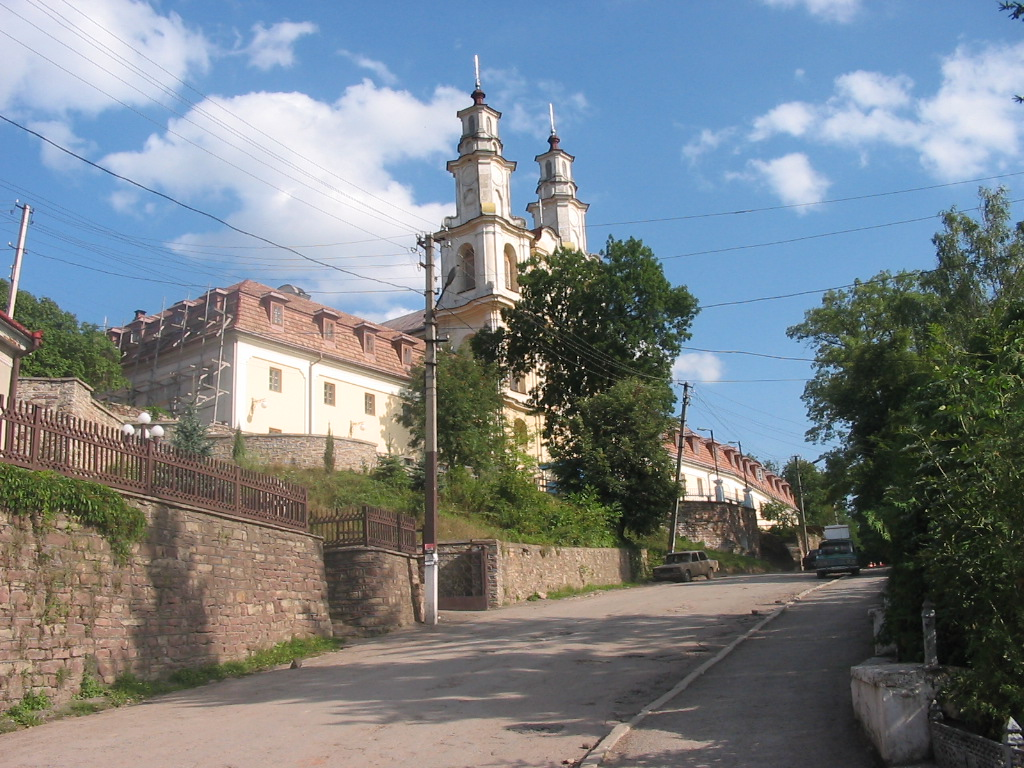 Basilian Byzantine-Catholic monastery, Buchach, Ukraine